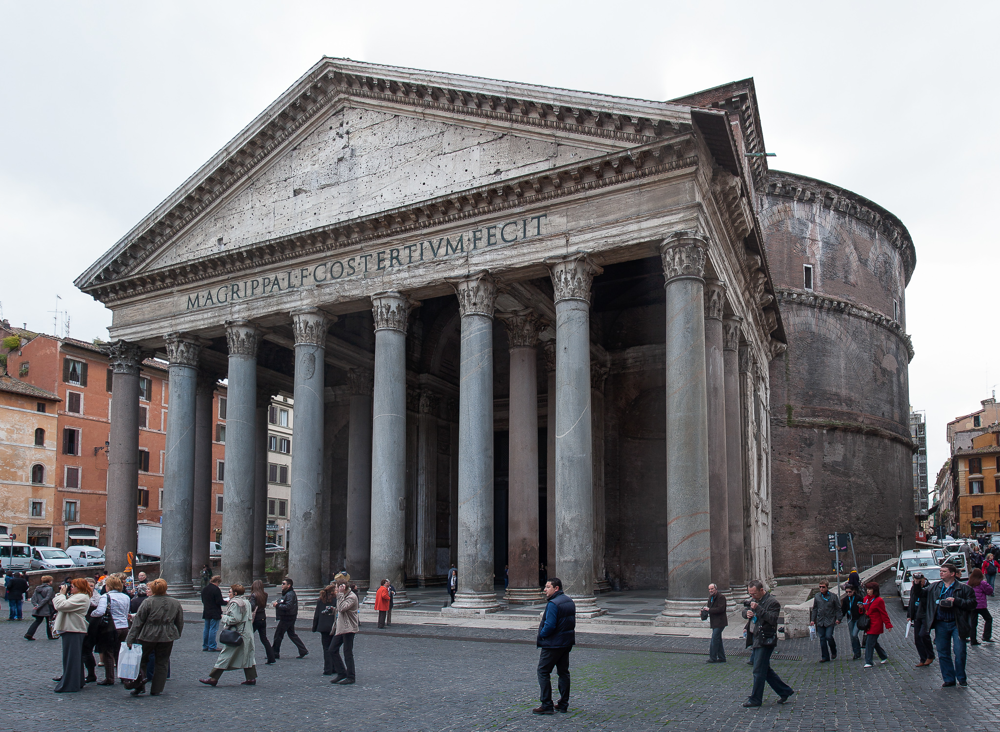 Pantheon / Rome, Italy